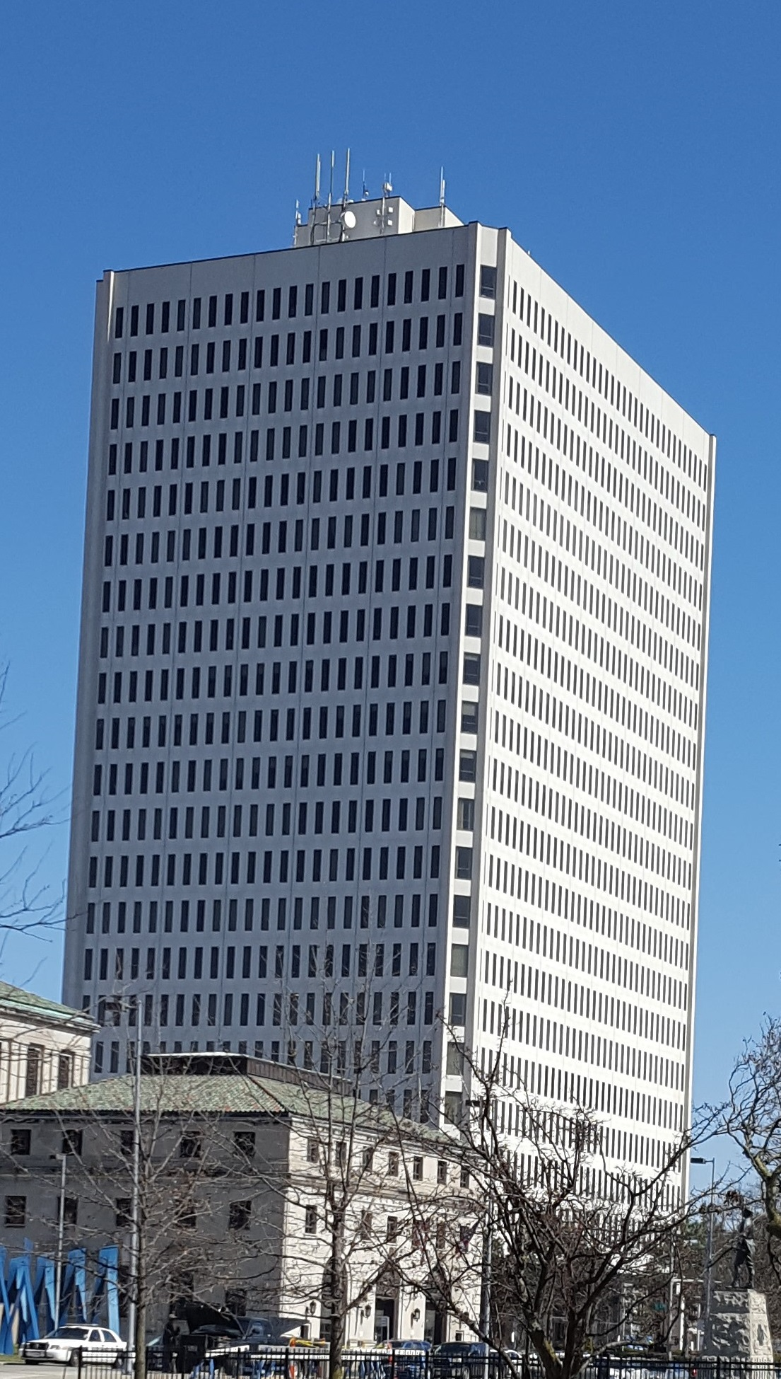 The high-rise building at One Government Center (640 Jackson Street) houses city, county, and state government offices.